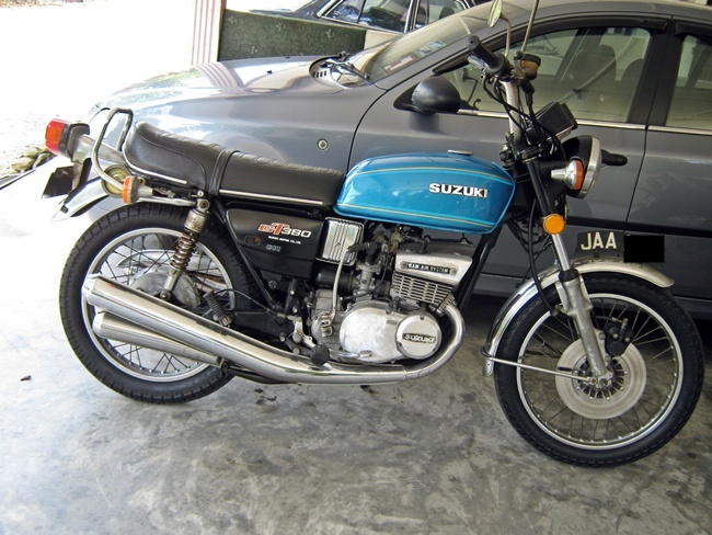 Suzuki GT (Grand Tour) 380cc made from 1972-1978